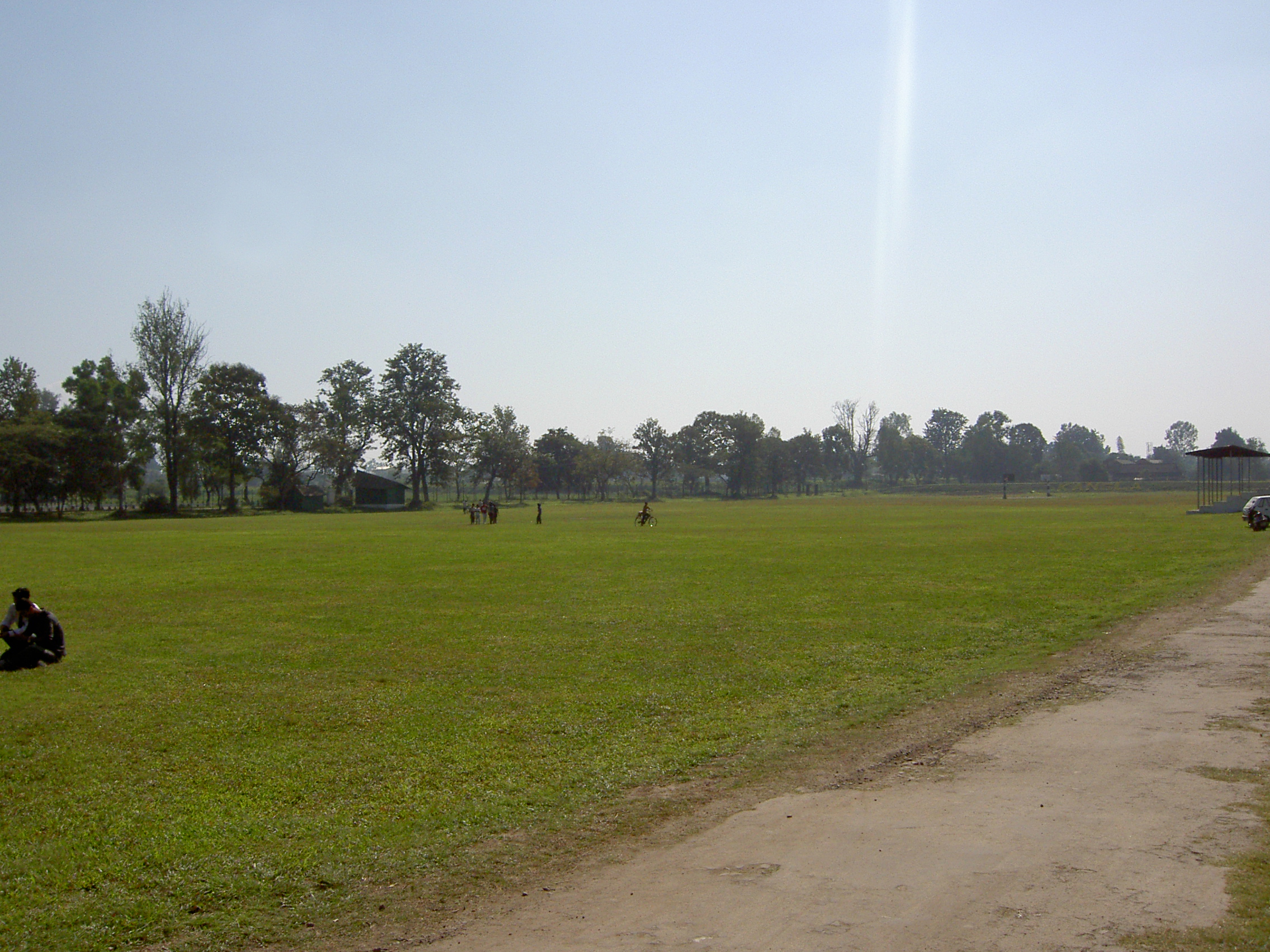 Old polo field in the Kangla sector (Imphal - India)